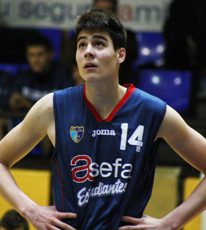 Juancho Hernangómez